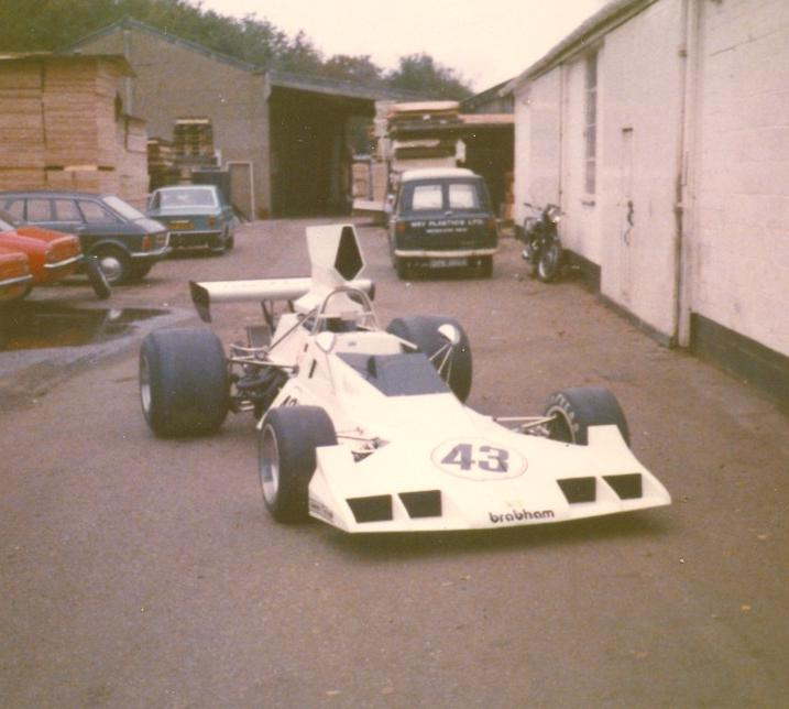 Brabham BT43 F5000 car - debut in 1973 showing outside Motor Racing Developments Weylock Works, New Haw, Surrey UK